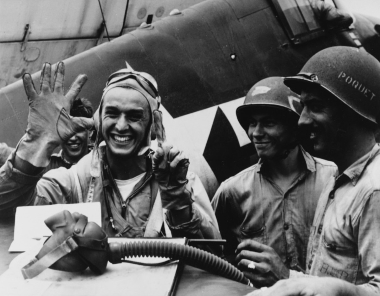 Battle of The Philippine Sea, June 1944 (Catalog #: 80-G-23684): Lieutenant Junior Grade Alexander Vraciu, USNR; fighting squadron 16 "Ace", holds up six fingers to signify his "kills" during the "Great Marianas Turkey Shoot", on 19 June 1944. Taken on the flight deck of the USS LEXINGTON (CV-16). Note: Grumman in background and sailor A.L. Poquet at right.